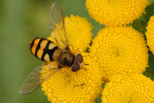 Picture taken in Commanster, Belgian High Ardennes. Species: male Eupeodes latifasciatus